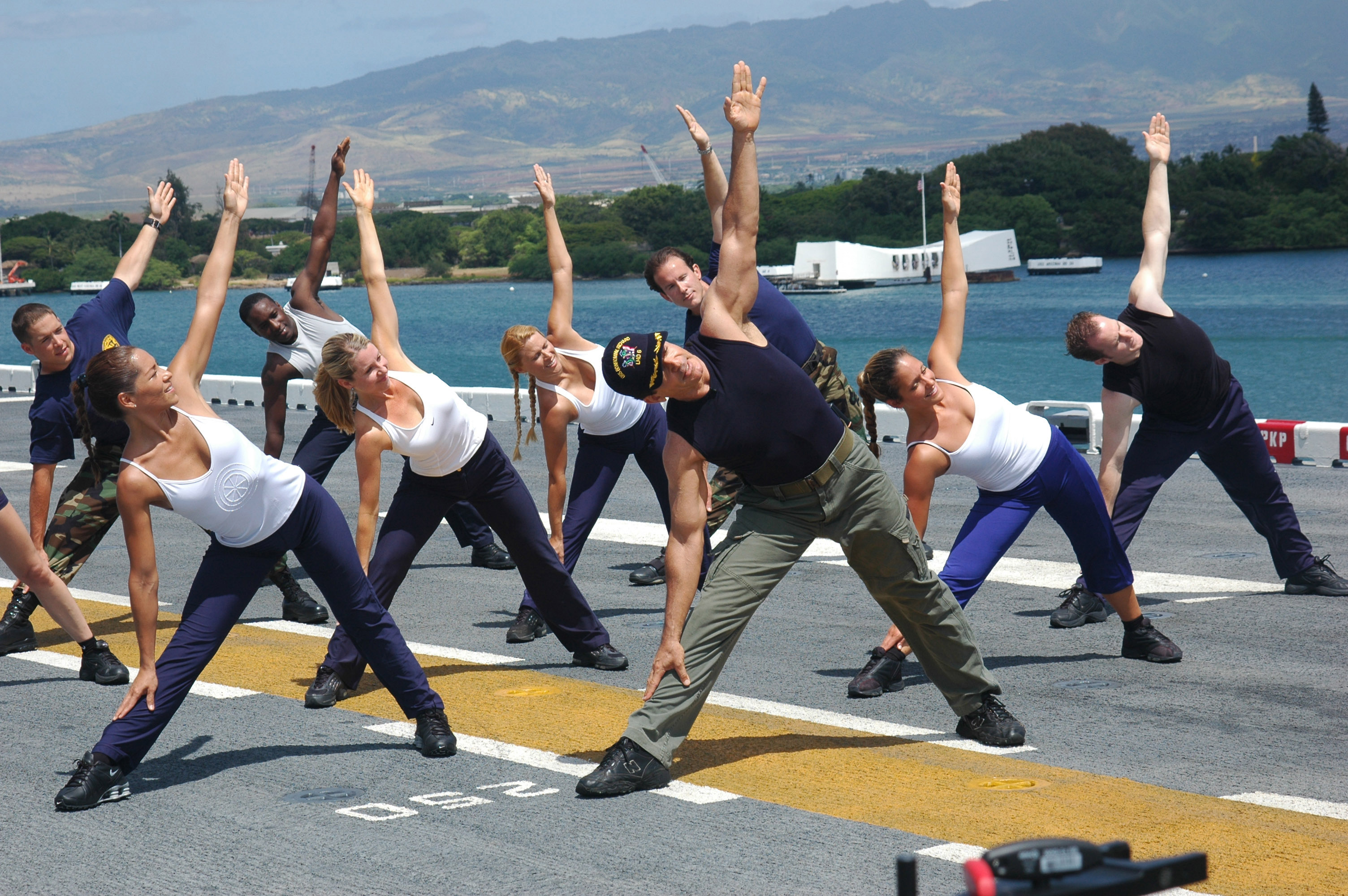 Pearl Harbor (Jun. 27, 2006) - Gilad of the Fit TV show, Bodies in Motion, films a show aboard the amphibious assault ship USS Bonhomme Richard (LHD 6). Sailors participated in the filming on the flight deck during Rim of the Pacific (RIMPAC) 2006. Eight nations are participating in RIMPAC 2006, the world's largest biennial maritime exercise. Conducted in the waters off Hawaii, RIMPAC 2006 brings together military forces from Australia, Canada, Chile, Peru, Japan, the Republic of Korea, the United Kingdom and the United States. U.S. Navy photo by Storekeeper 1st Class Blaine W. Smith (RELEASED)